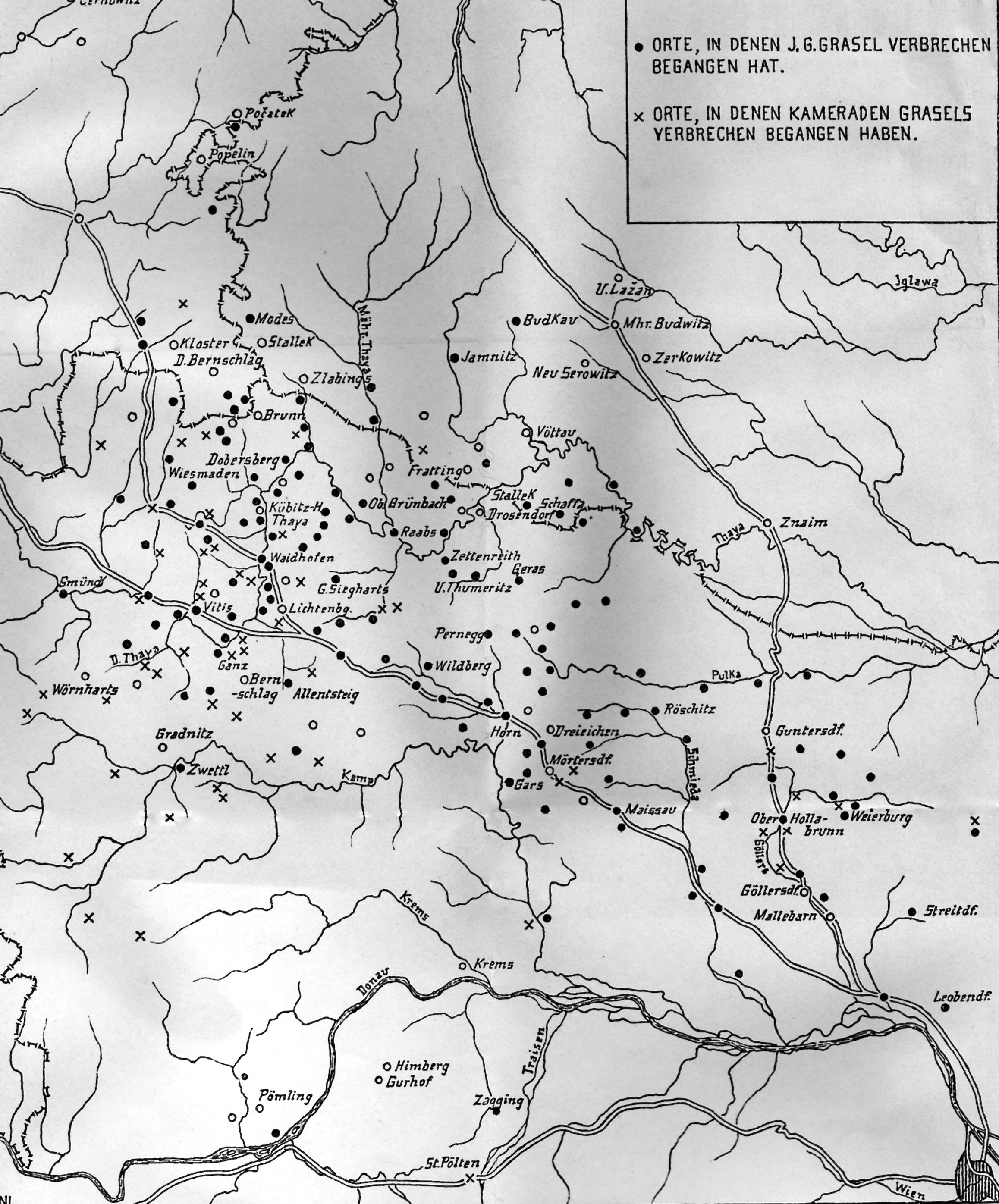 Map of the crime scenes of J.G. Grasel